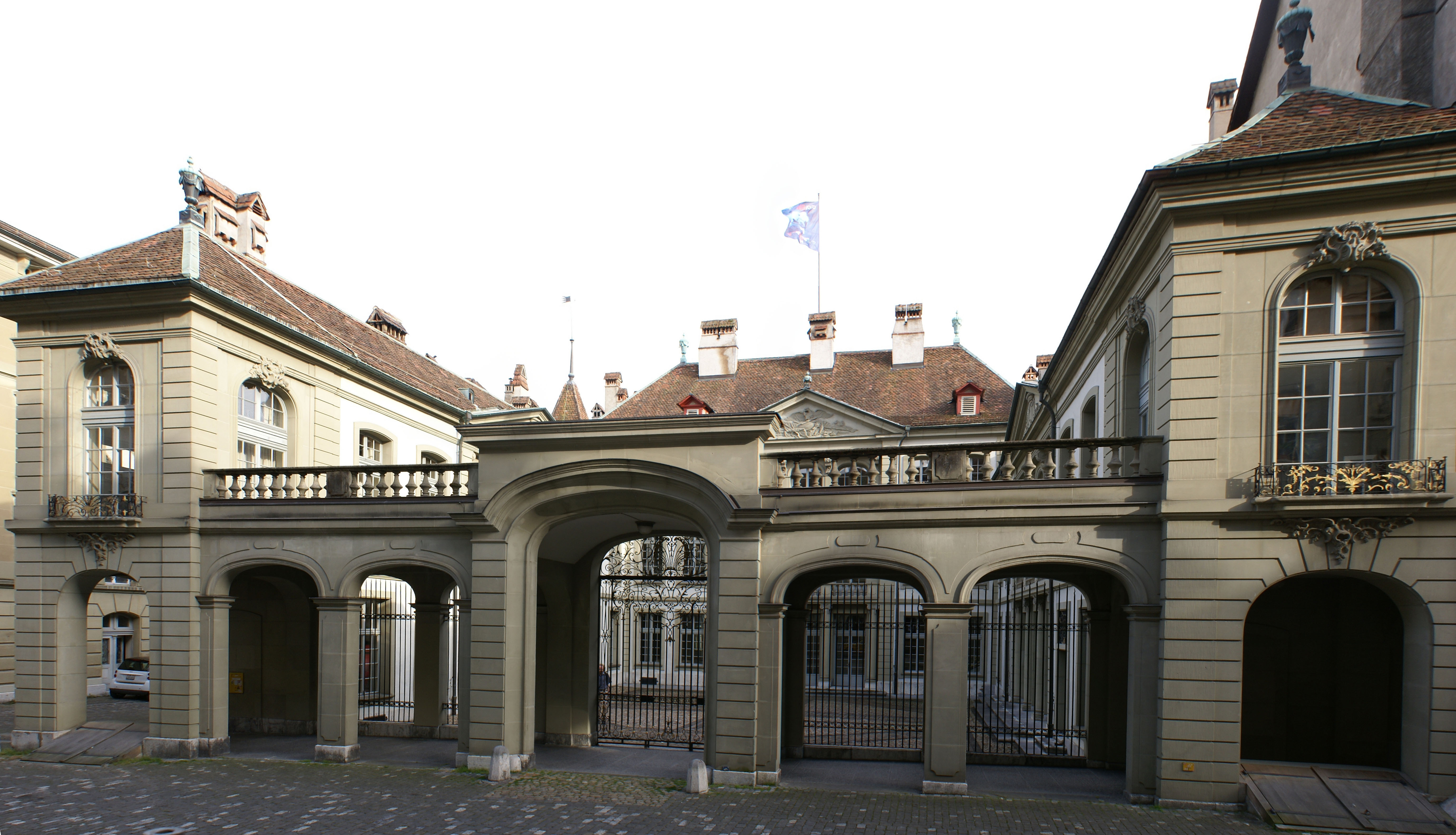 The Erlacherhof ("Erlach Court"), Junkerngasse no. 47, is the most significant private building, in historical and architectural terms, of the Old City of Berne, Switzerland.